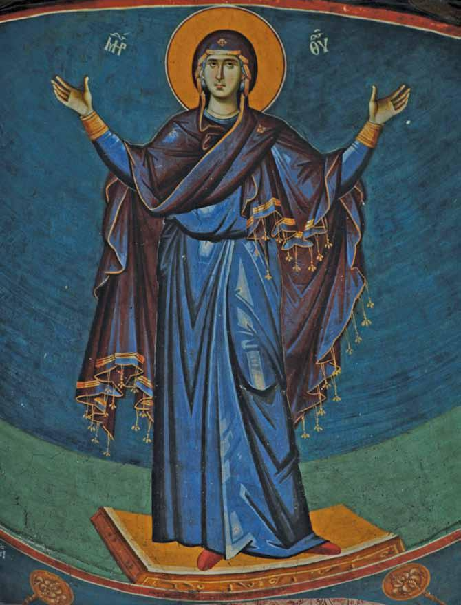 Fresco of Virgin Orans in conch of apse in Church of the Theotokos Peribleptos in Ohrid, Macedonia